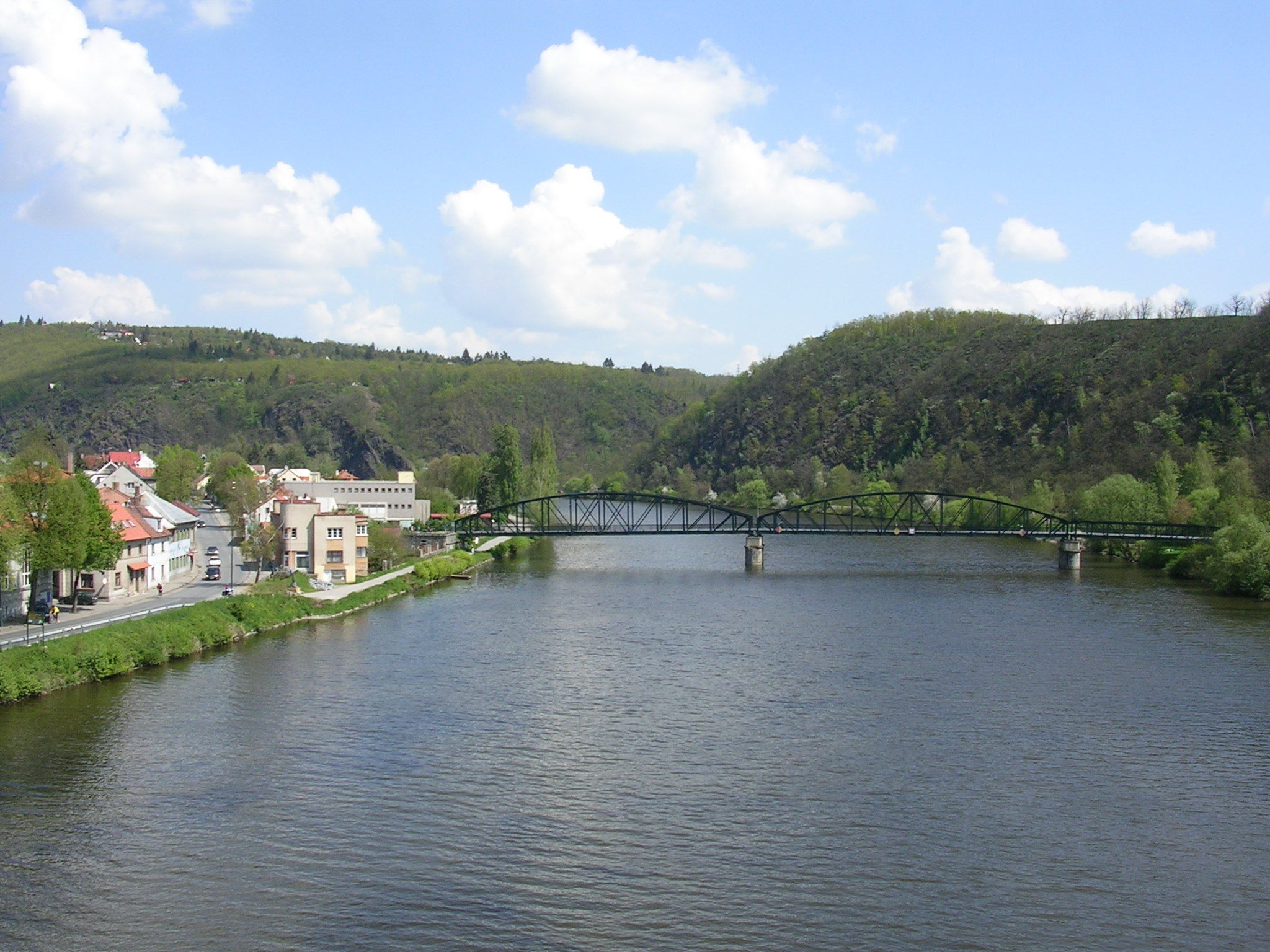 Davle bridge, Czech Republic.